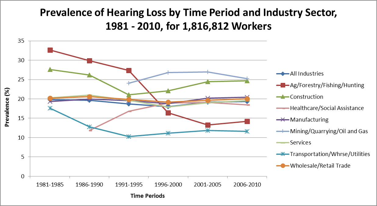 Prevalence of Hearing Loss by Time Period and Industry Sector, 1981 - 2010 for 1,816,812 workers